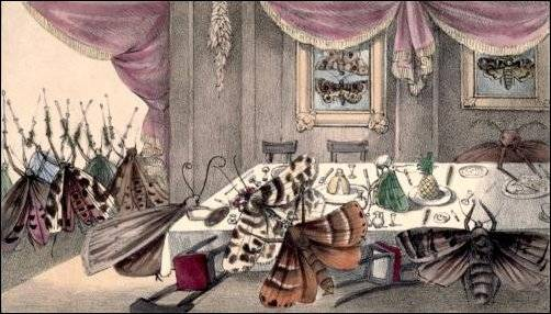 Anthropomorphised meeting of butterflies, entitled "The Alarm", from the 1831 children's book The Emperor's Rout.